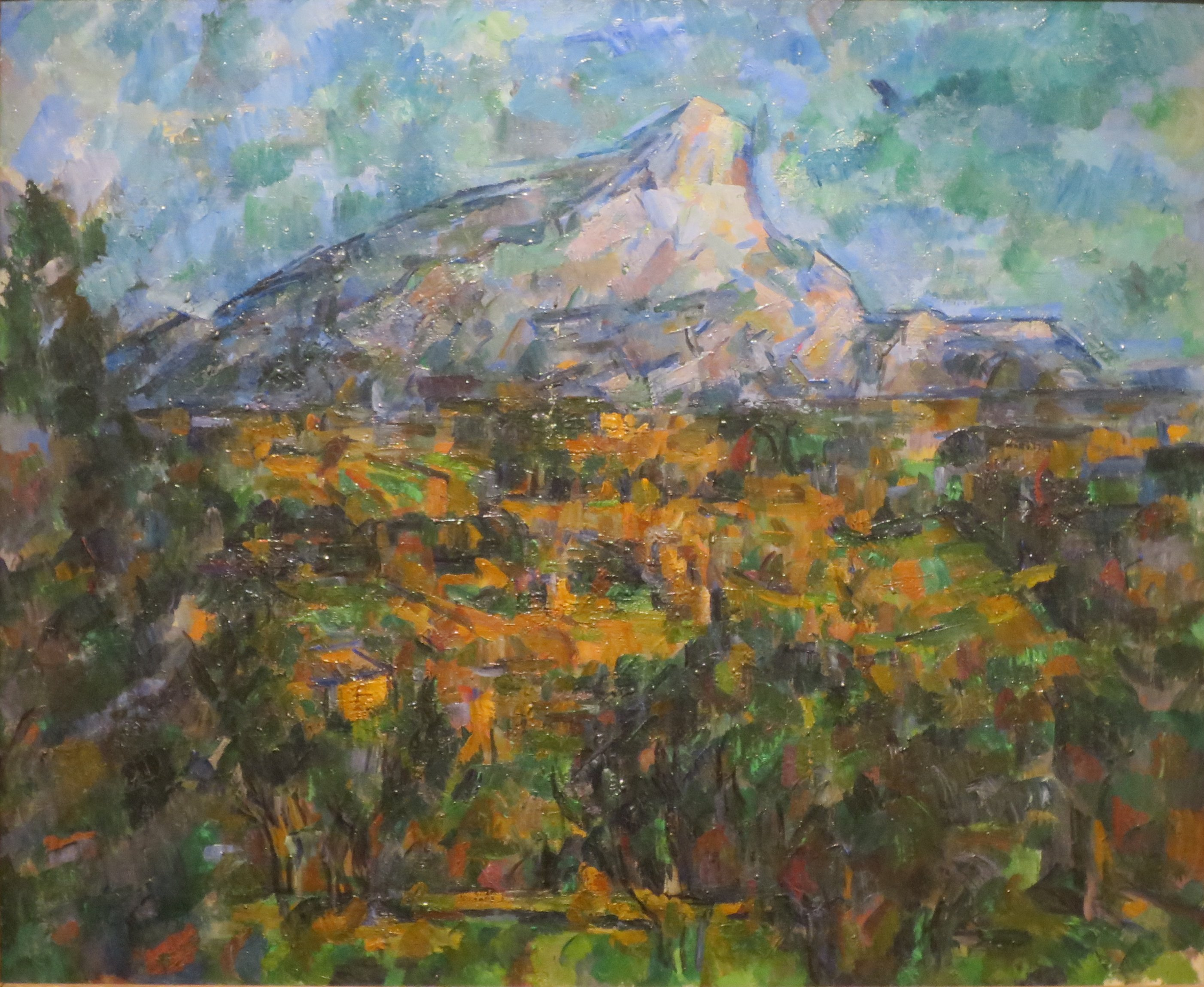 Mont Sainte Victoire as Seen from les Lauves, oil on canvas, Pushkin Museum